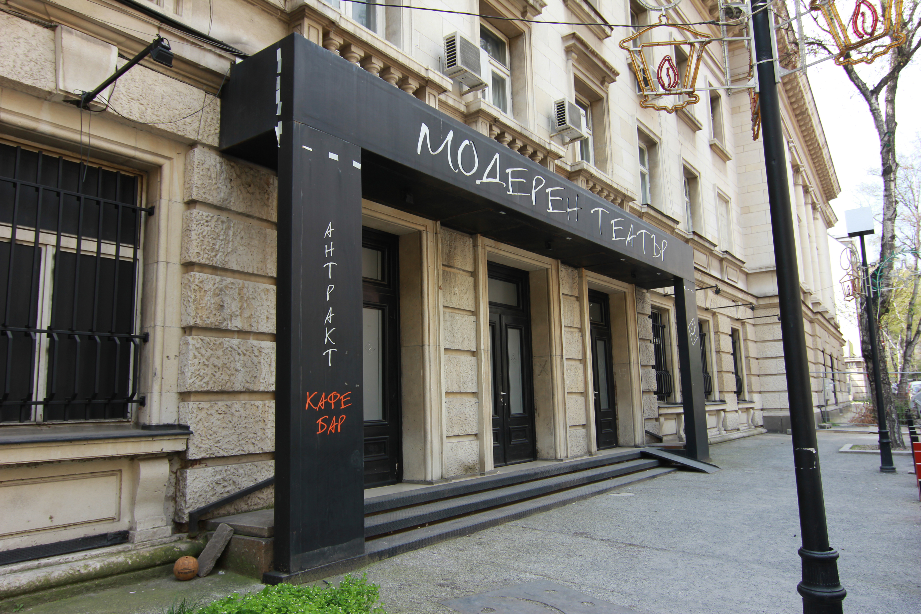 Modern Theatre in Sofia, Bulgaria